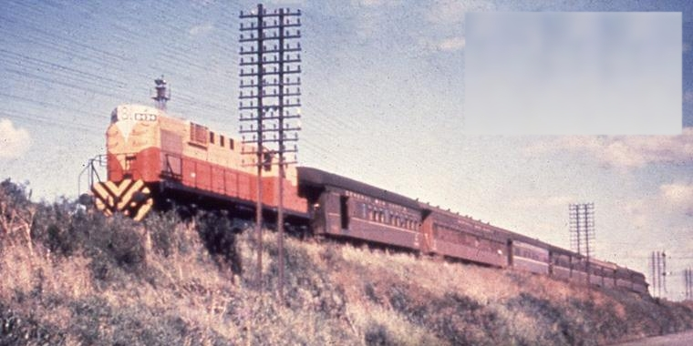 A San Martín line train while being operated by Ferrocarriles Argentinos.